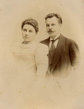 Croatian writer Silvije Strahimir Kranjčević with his wife Gabrijela Kašaj